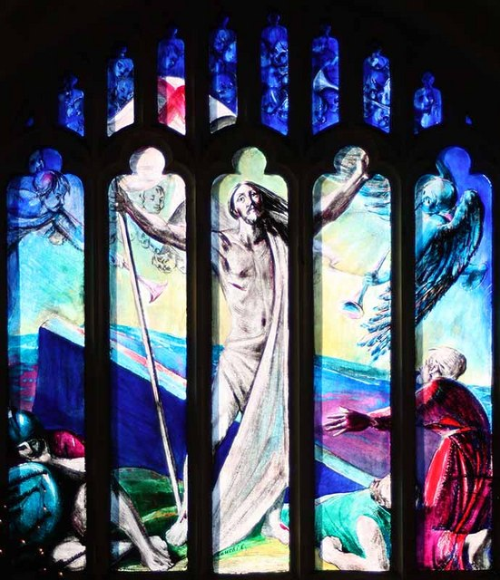 St Monica's Church, Green Lanes, Palmers Green, London - East window I am not sure if this is stained glass or a glass painting!